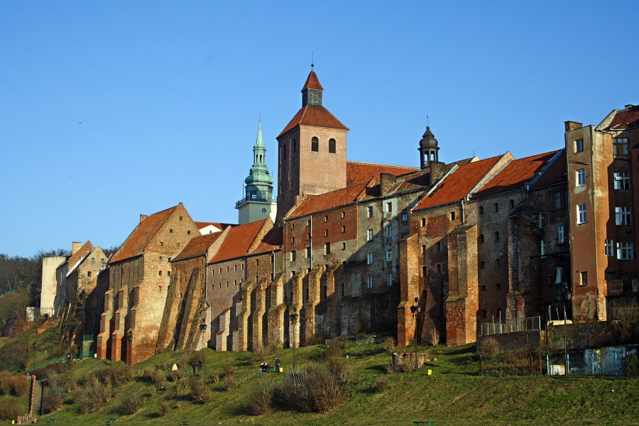 Grudziądz, granaries seen from Vistula side